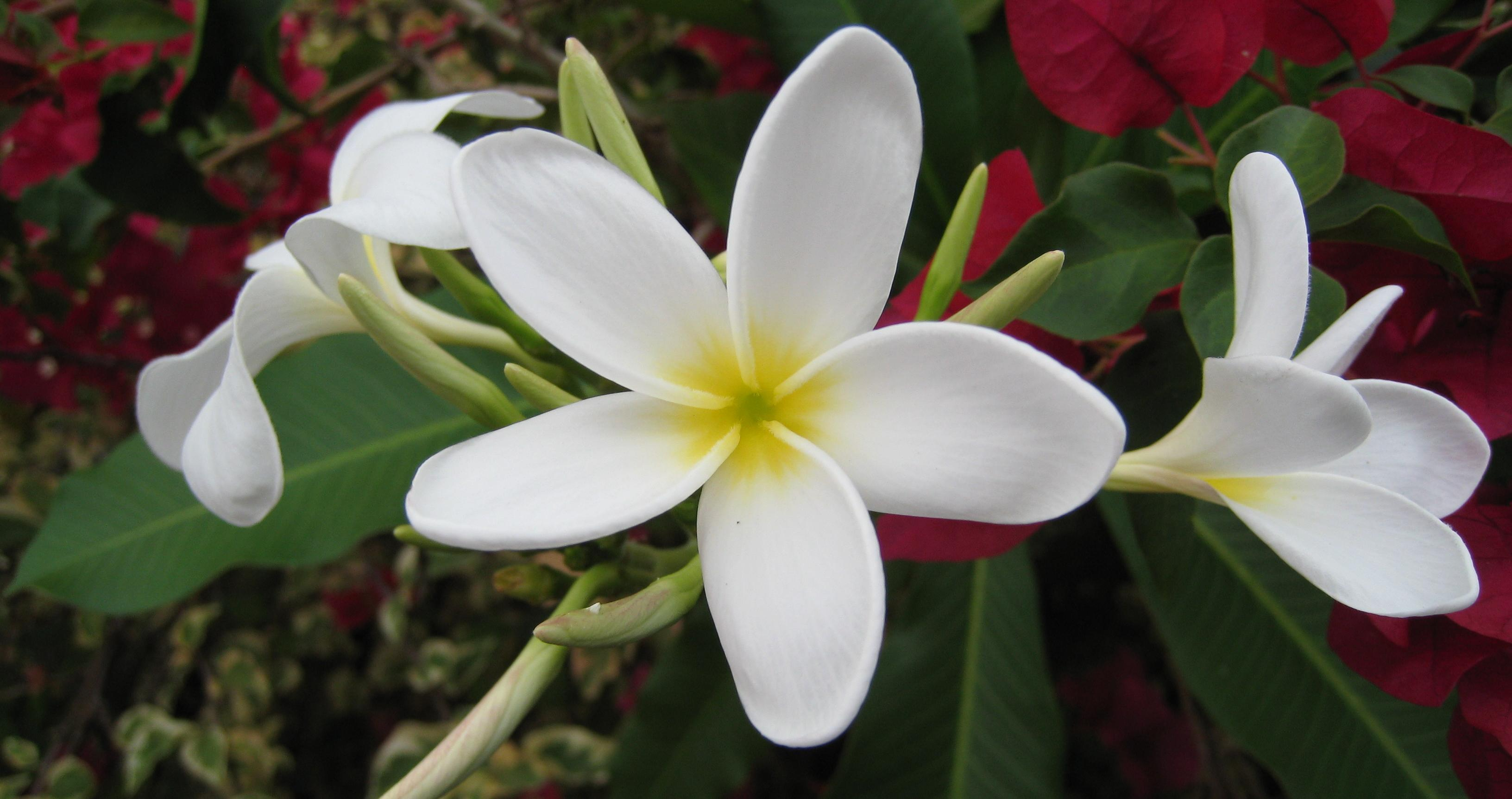 Plumeria flower in Dr. Rafael M. Mascoso National Botanical Garden